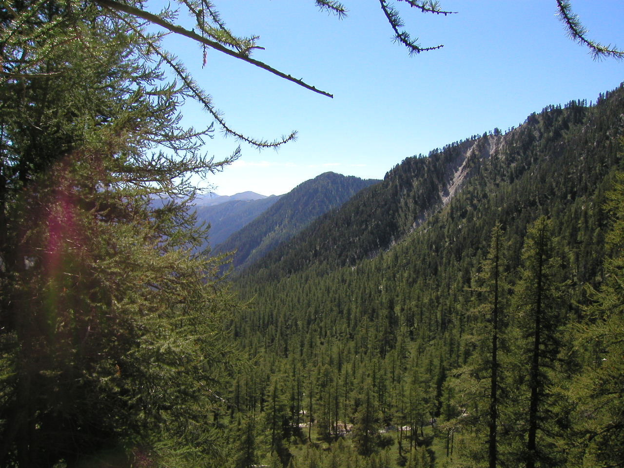 Mercantour National Park-Parco naturale delle Alpi Marittime view - in the Maritime Alps.P8020247